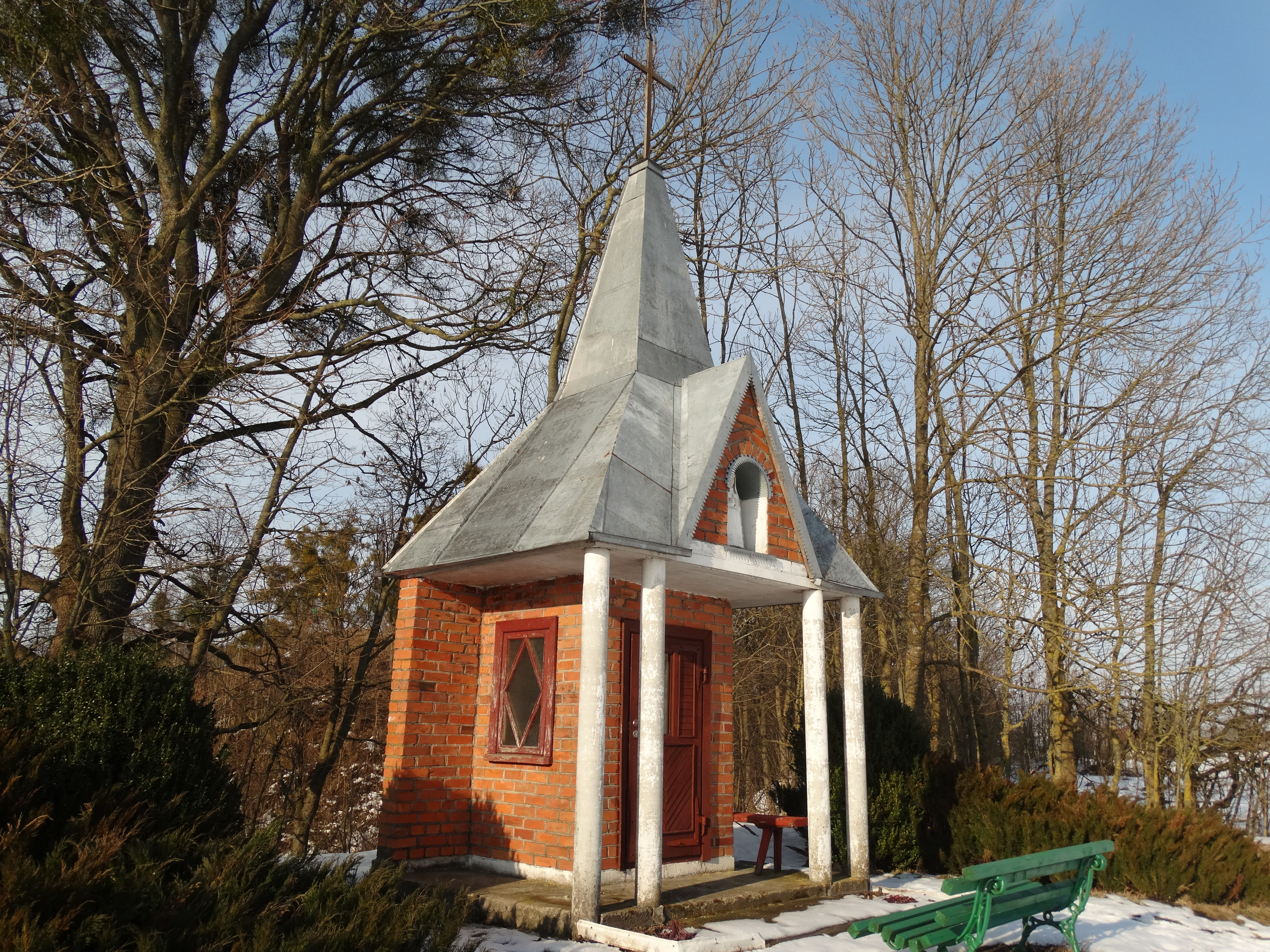 Chapel, Klebiškis, Prienai district, Lithuania